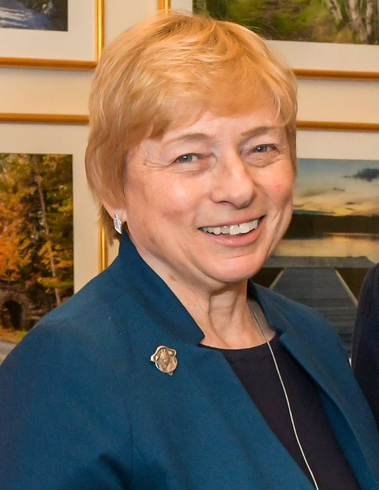 U.S. Senators Susan Collins and Angus King and U.S. Representatives Chellie Pingree and Jared Golden today met with Governor Janet Mills at the U.S. Capitol.